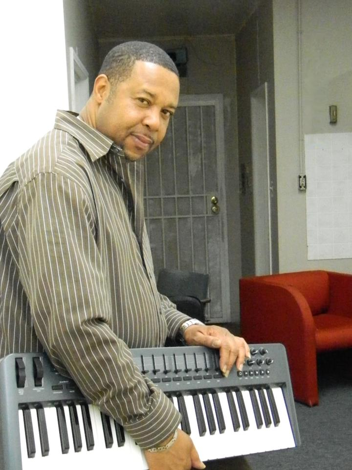 Richard Anthony pictured inside at Richworld studios in 2012.